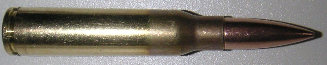 7.5 x 54 mm MAS French round